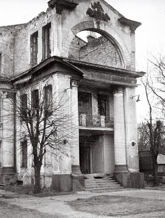 "Grand Marina" in 1944, Talllinn